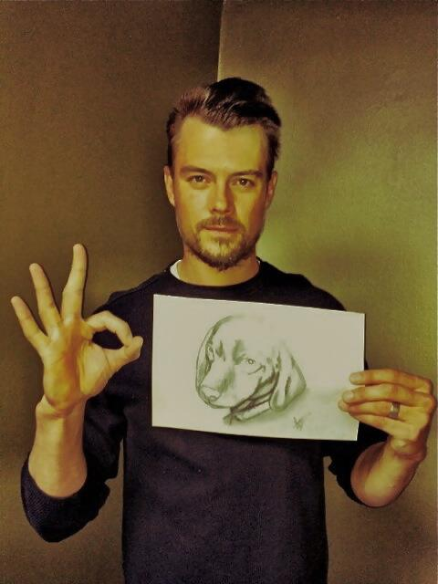 Josh Duhamel with Bruno Aranda drawing